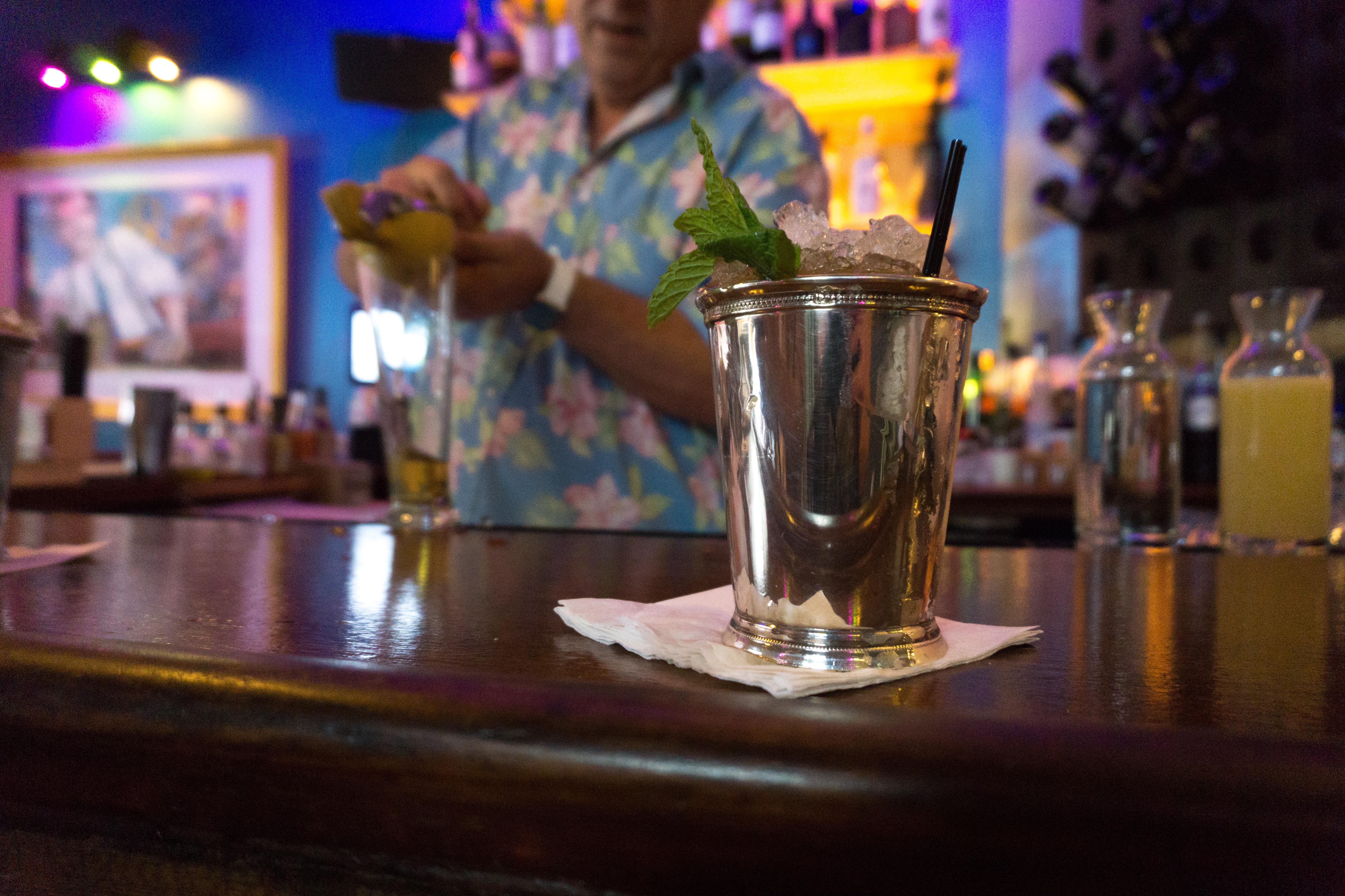 Mint julep in a traditional silver cup at Revel in New Orleans, Louisiana while bartender mixes another one in the background.